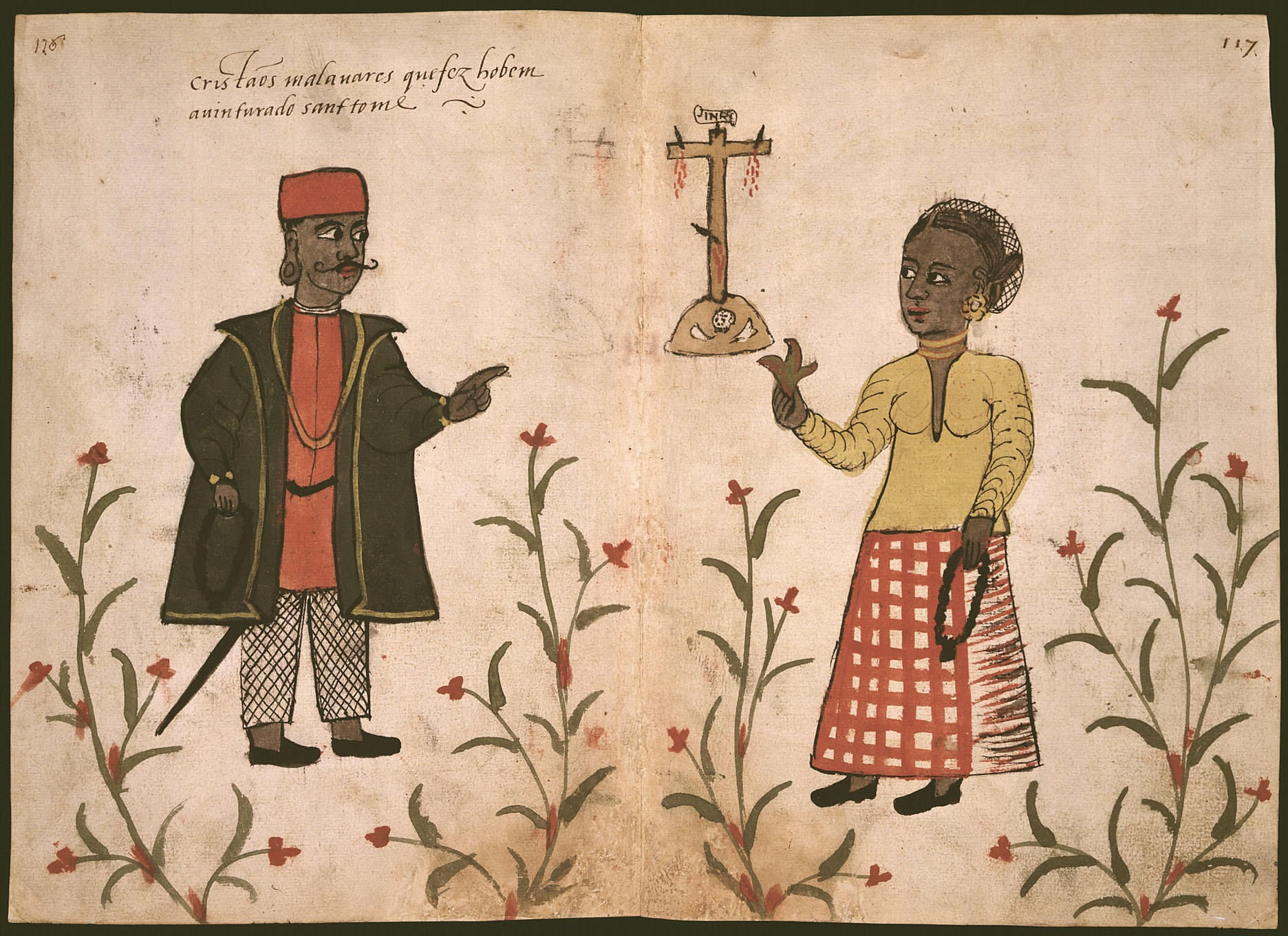 Anonymous 16th century Portuguese illustration contained within the Códice Casanatense, depicting a couple of Saint Thomas Christians of the Malabar Coast in India. The inscription reads: "Malabarese, made Christians by the well-ventured Saint Thomas"